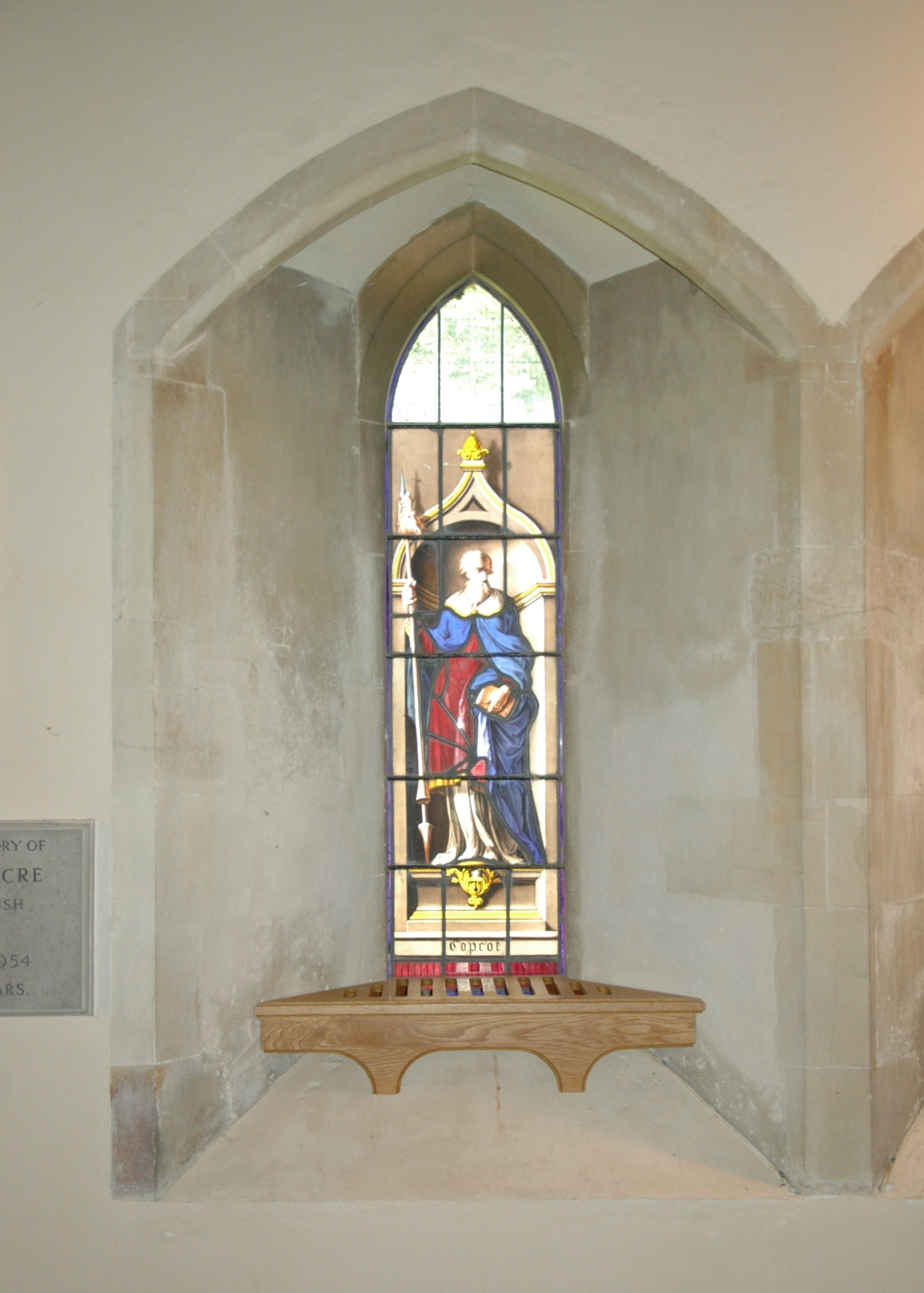 Church of England parish church of St Giles, Horspath, Oxfordshire: painted glass window presented in 1740 to commemorate the 15th century legend that John Copcot used a copy of Aristotle to defend himself against a wild boar in Shotover Forest.